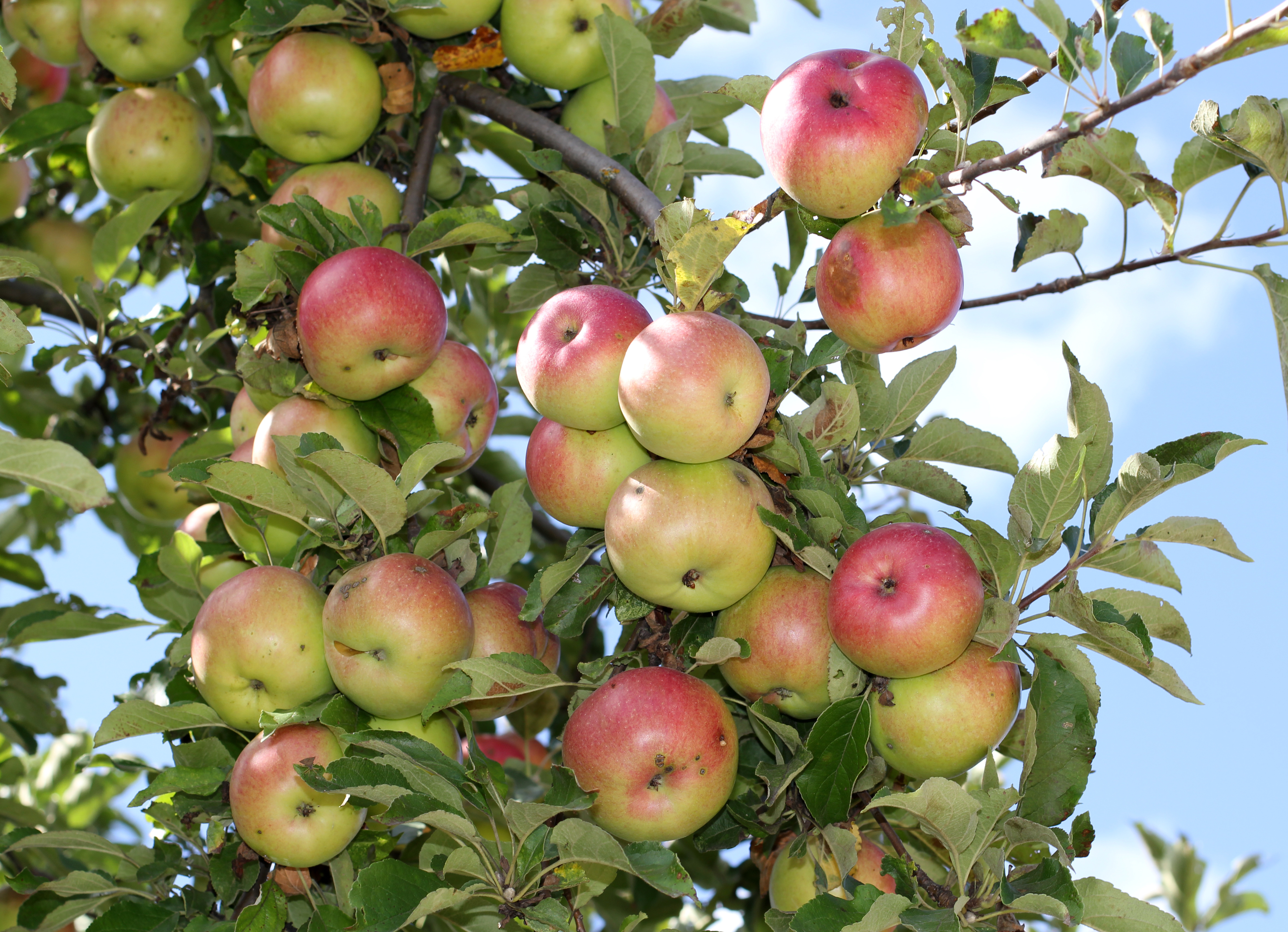 Apples on an apple-tree. Ukraine.